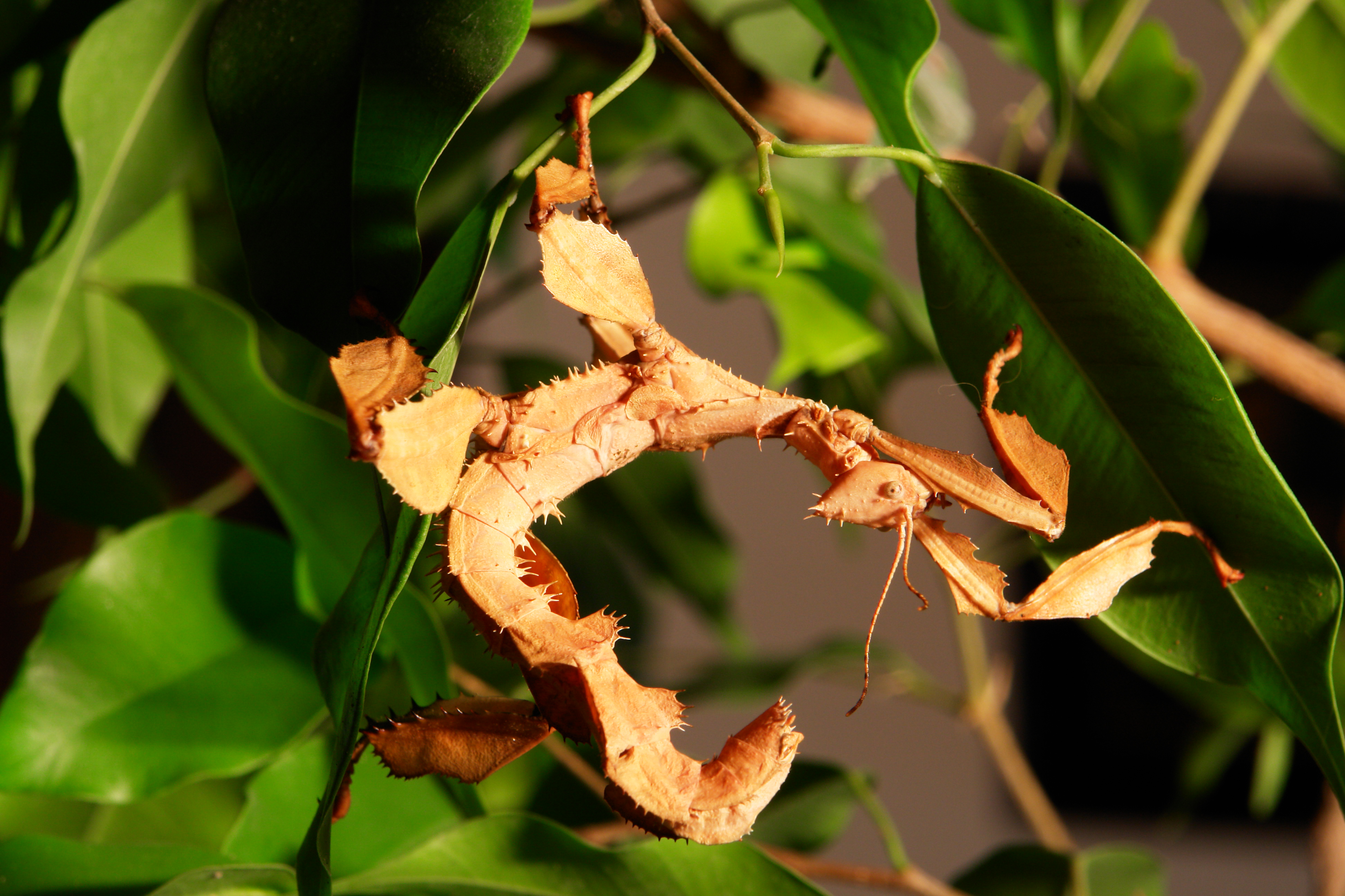 Extatosoma tiaratum, Insect, female, after 4th molt